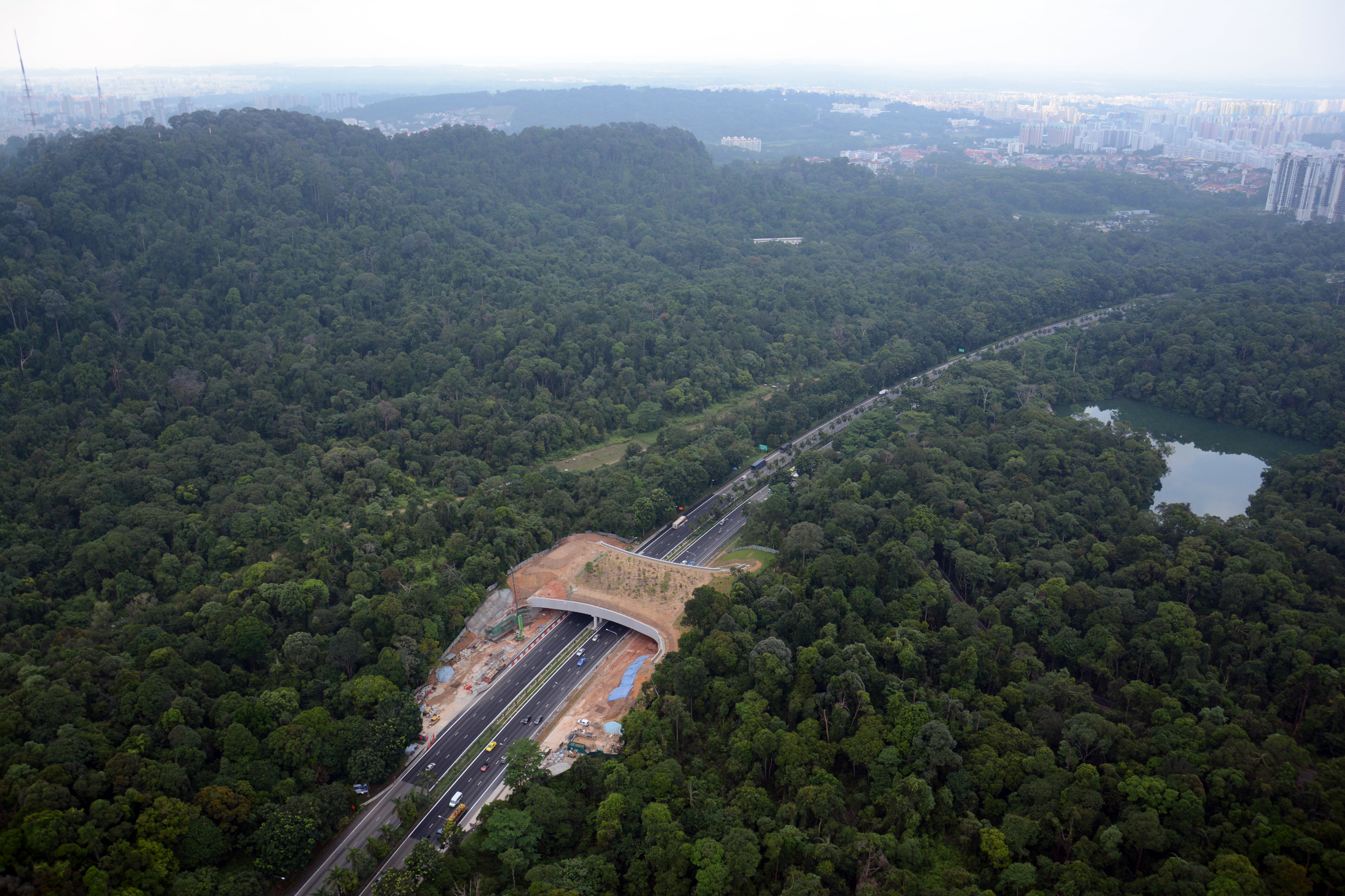 Wildlife overpasses are used as a mitigation measure worldwide to reduce the mortality of wildlife on roads, and to a certain extent, to facilitate the genetic exchange of both flora and fauna species in forest fragments. This photo depicts a newly constructed wildlife overpass in highly urbanized Singapore, which connects two rainforest nature reserves that was separated by an eight-laned highway for close to 30 years. Rainforest afforestation on the overpass with the appropriate plant species will be crucial in forming a functional wildlife corridor between the two fragments. The success of such a mitigation technique can only be shown with the careful planning of monitoring programs (using camera traps and passive ultrasonic recordings) and genetic studies of target animal groups.